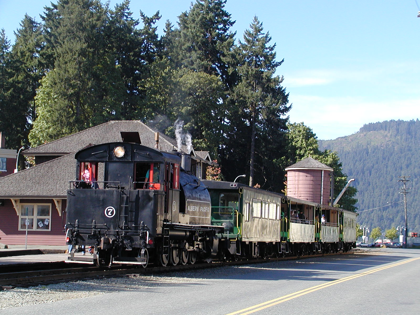 train, Alberni Pacific railway, Vancouver Island